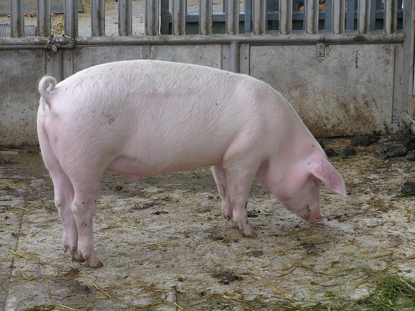 A domestic pig on an organic farm in Solothurn, Switzerland. On this farm two to three piglets are raised at a time. The pigs are fed cooked potatoes, amongst other things. They are out in the fresh air, but can resort to a shack to doze and sleep. I took this photograph on October 2, 2004 with an Olympus C750 UZ digital camera.